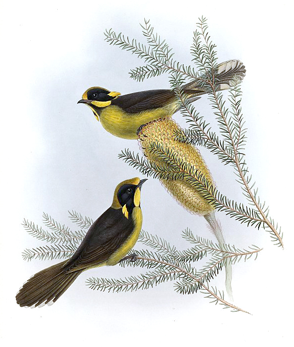 Helmeted Honeyeater Lichenostomus melanops cassidix. Original image color corrected to account for yellowing of original paper.